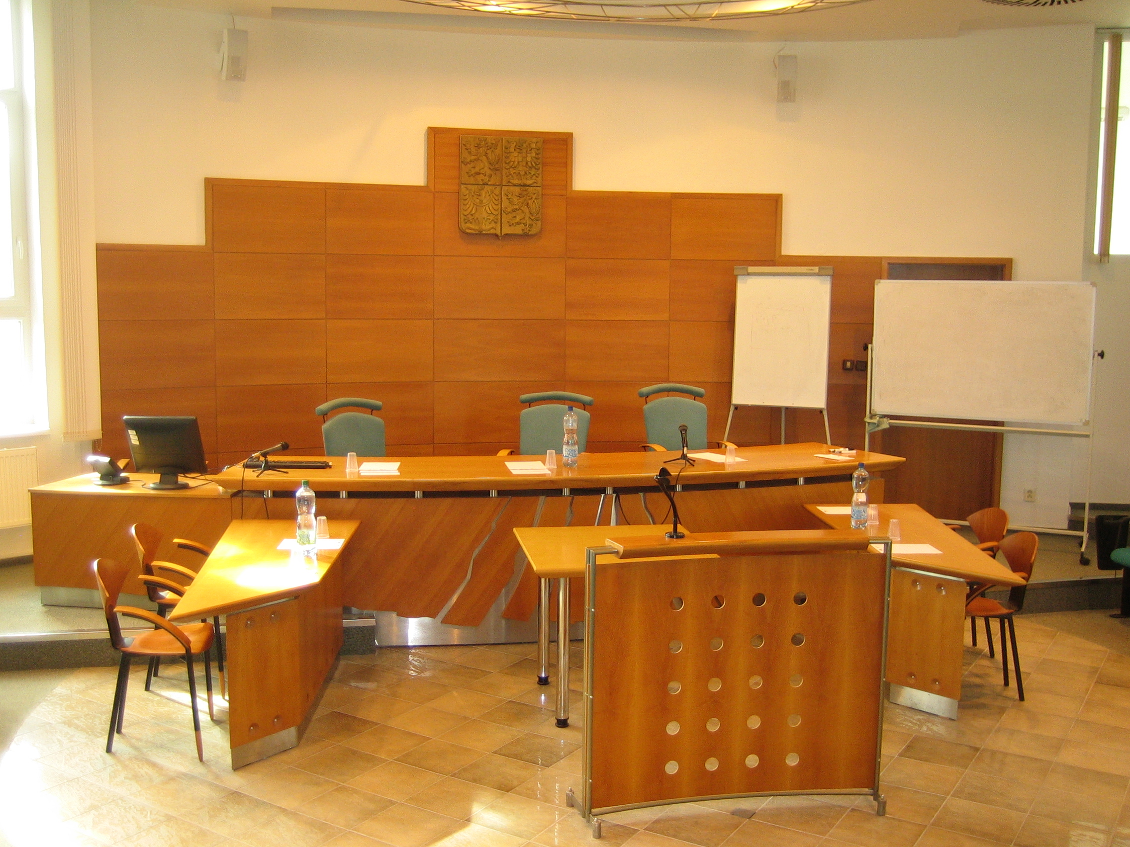 Courtroom of Palacký University of Olomouc Faculty of Law located in "Rotunda", building A